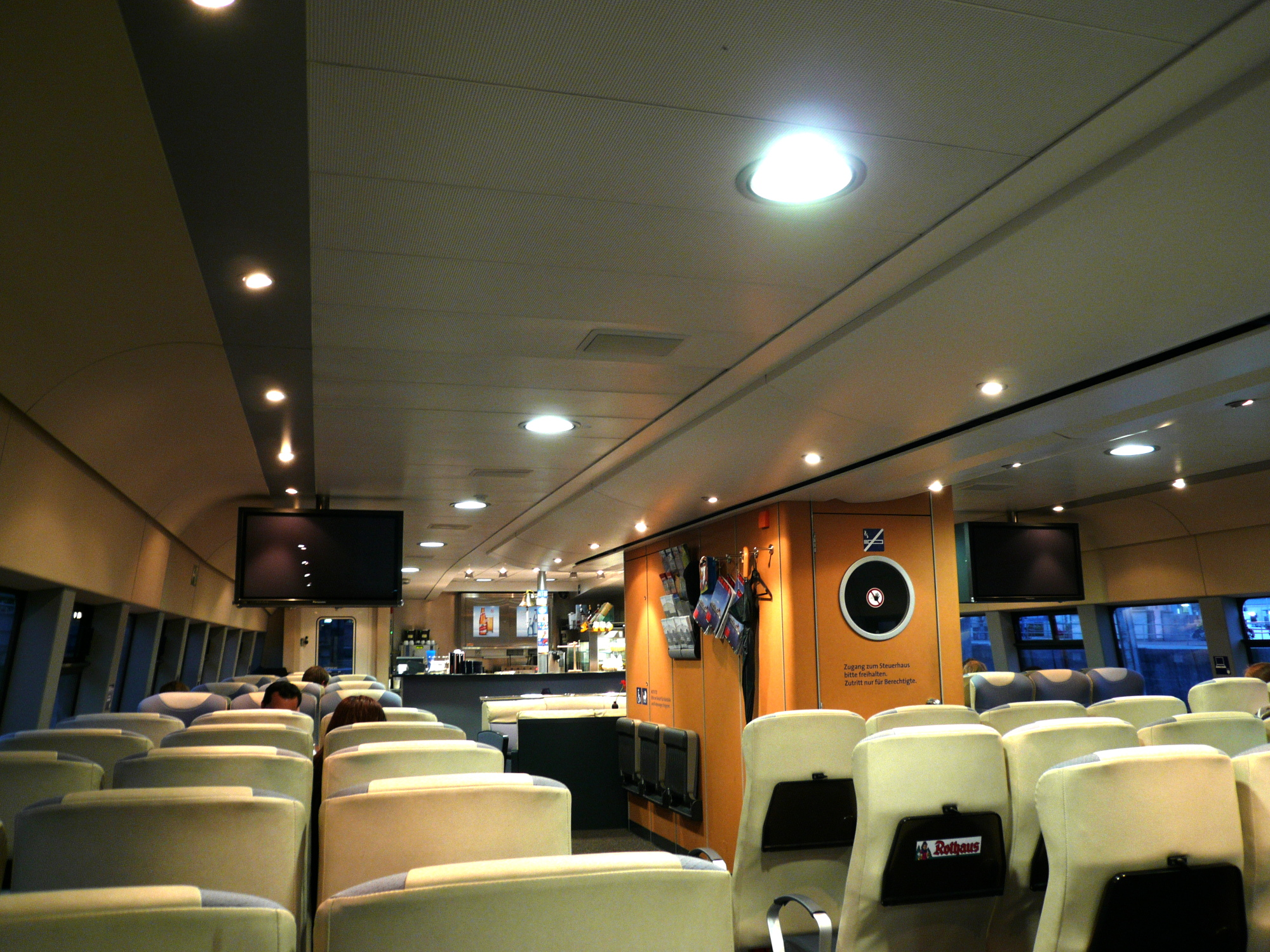 In one of the boats (Katamaran) circulating between Konstanz and Friedrichshafen